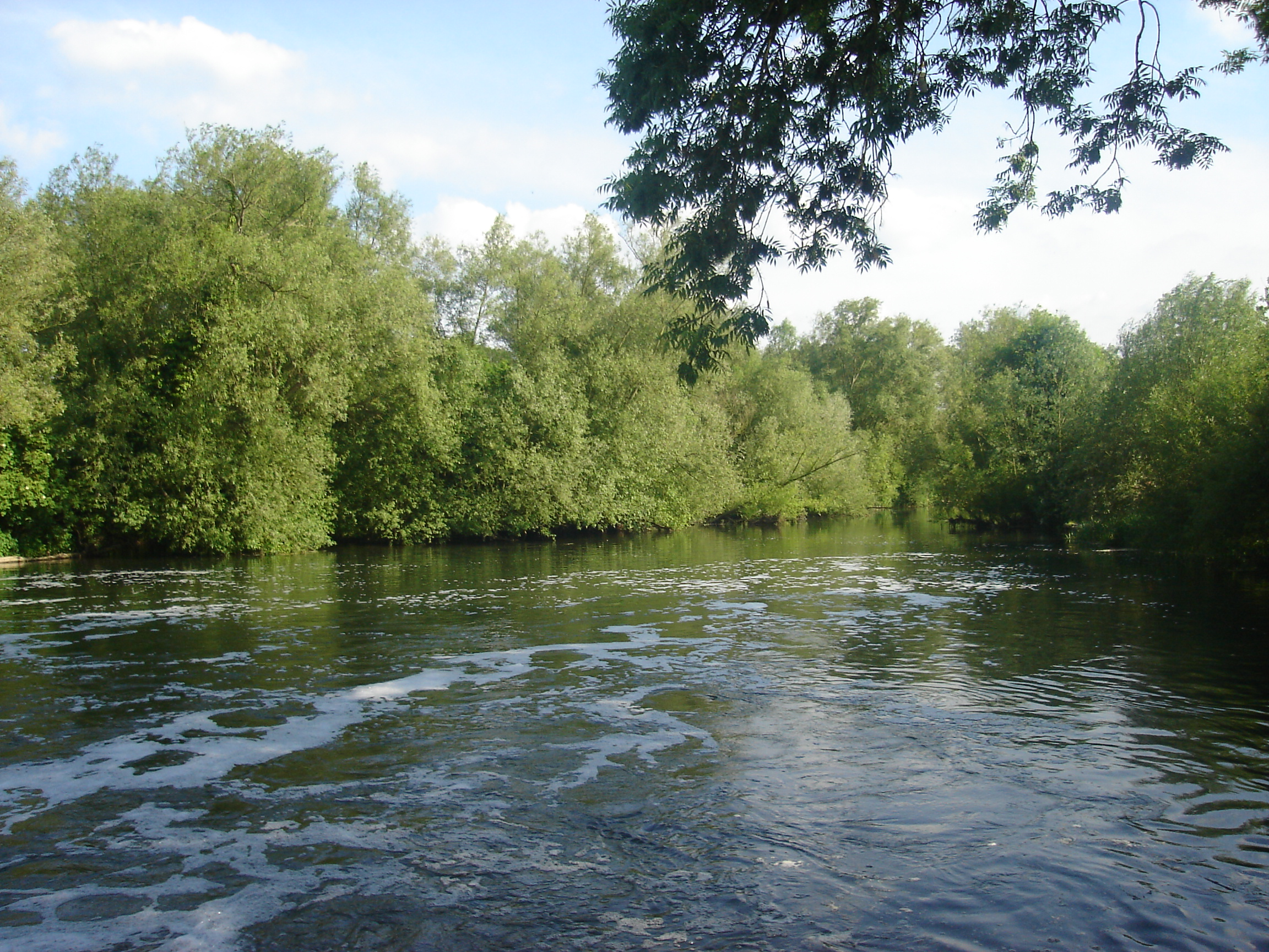 The River Lea below Kings Weir